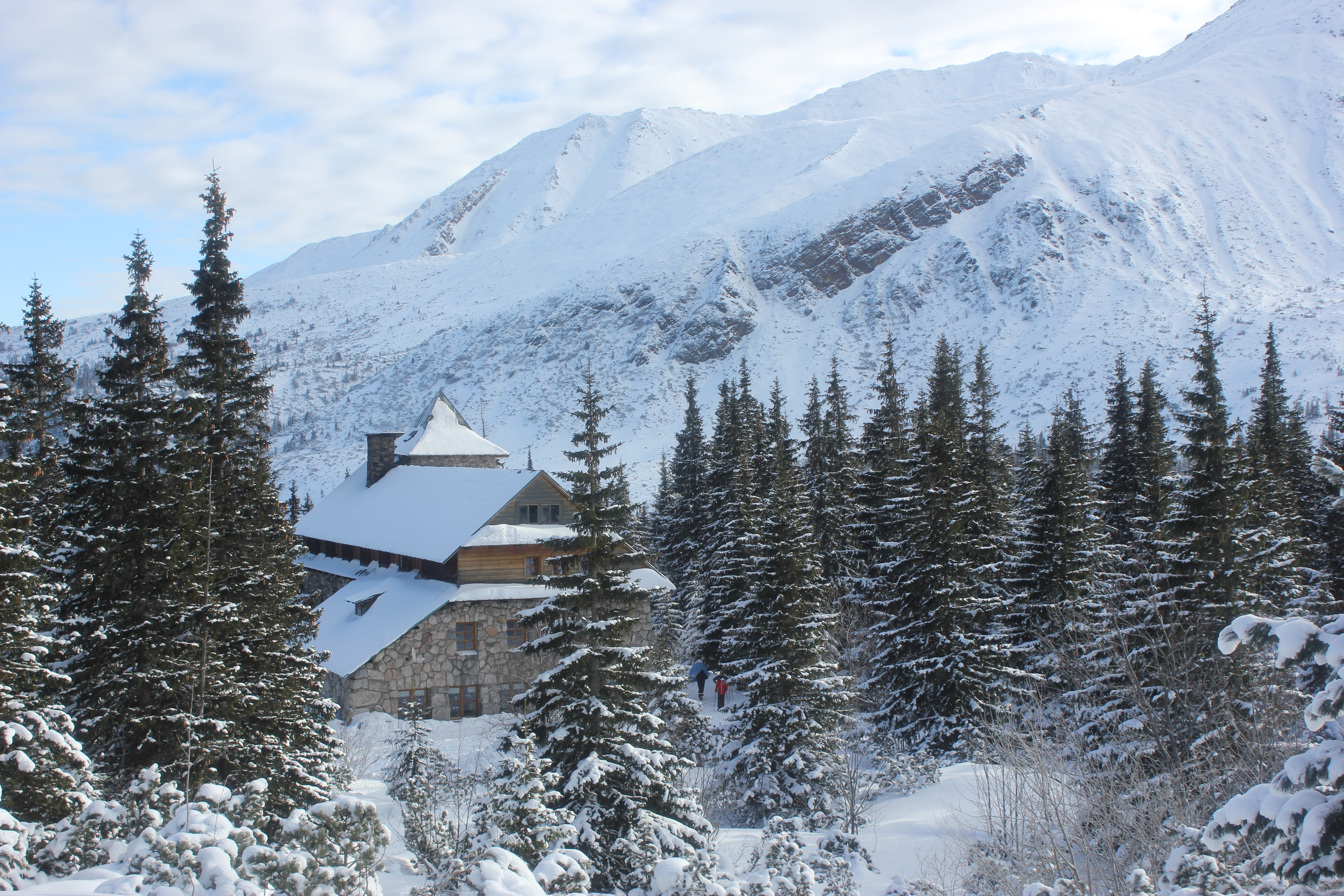 Hala Gąsienicowa - Murowaniec mountain shelter